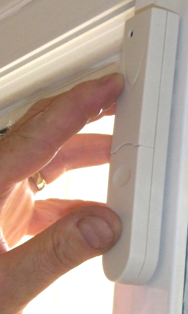 Fitting a wireless magnetic contact breaker on a door as part of a full installation of a wireless alarm security system in a private dwelling. The device is monitored by the control panel in the house and if the contact is broken when the alarm is armed then the siren is activated. The same device can be used on windows that open.